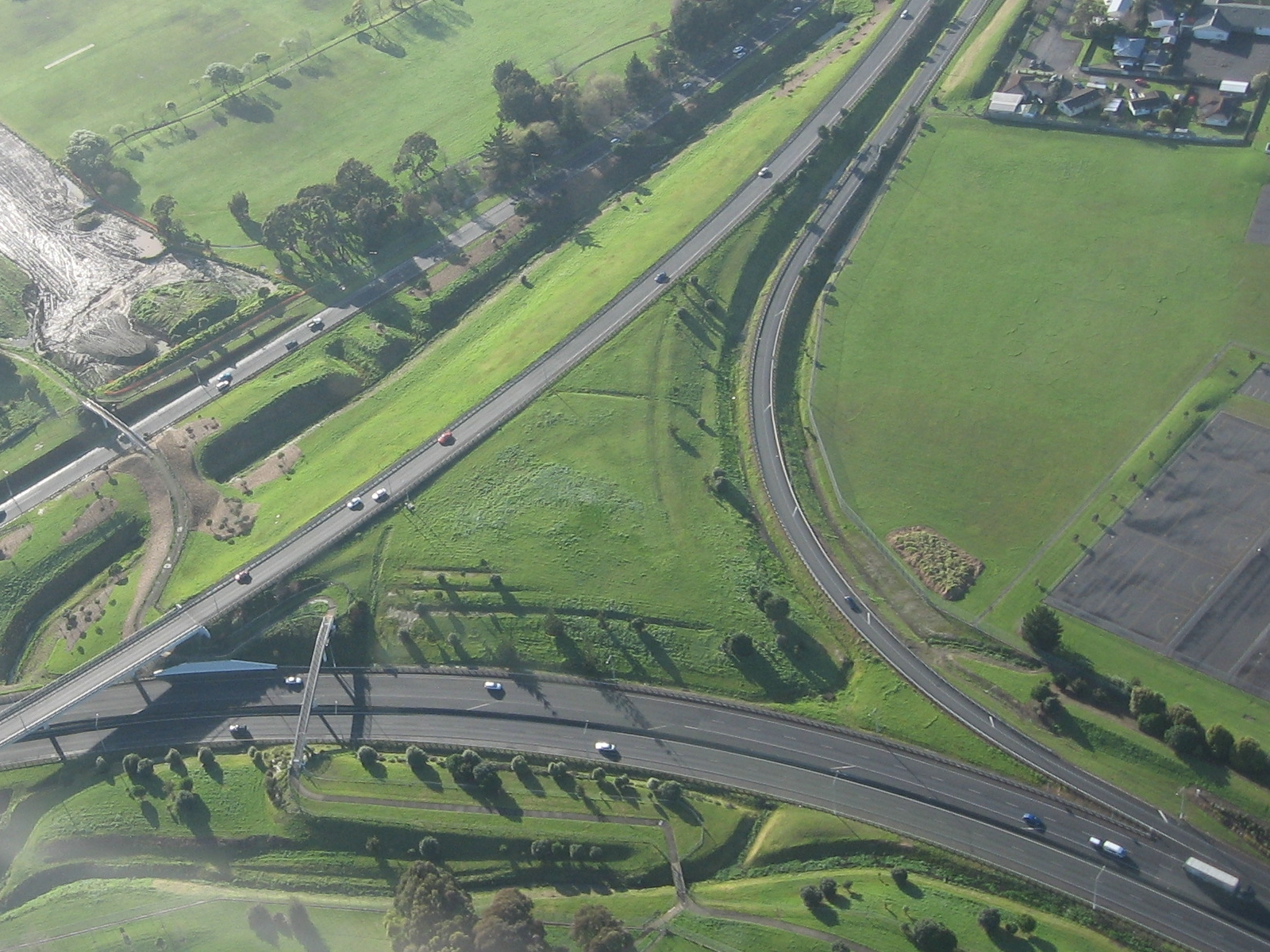 Looking roughly eastwards over the SH20-SH20A interchange in Mangere, Auckland, New Zealand.